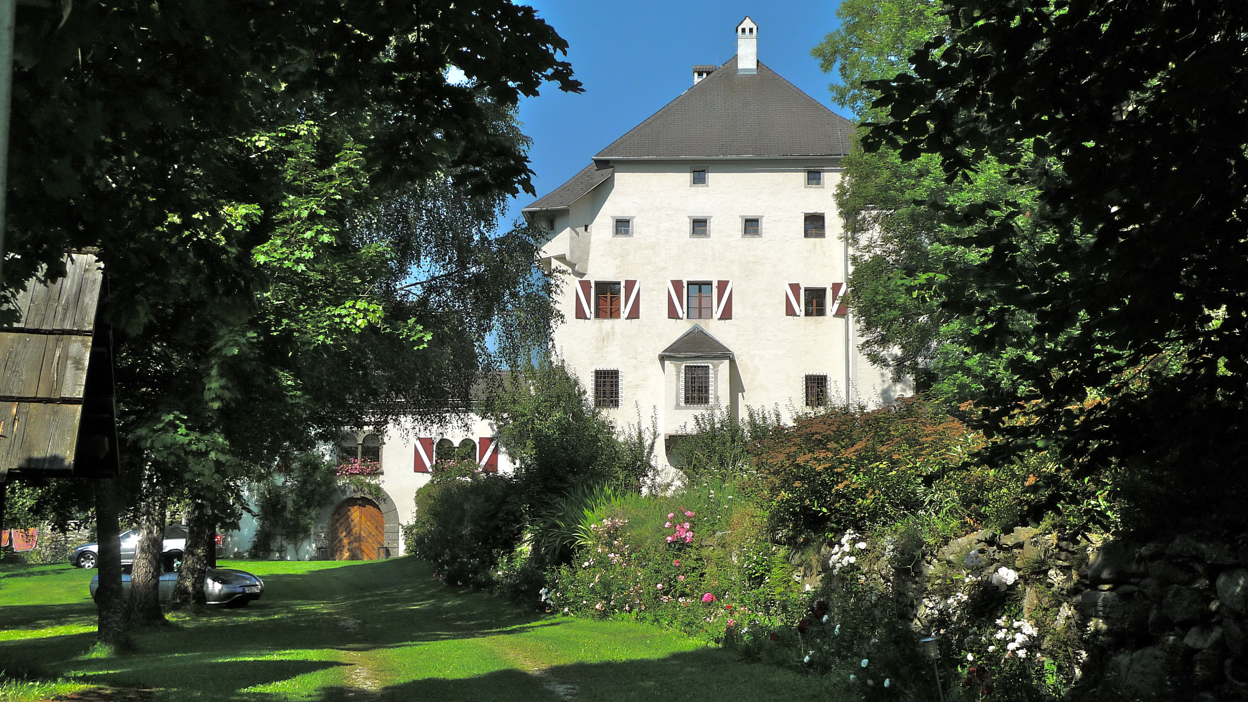 Castle Bach, municipality Sankt Urban, district Feldkirchen, Carinthia, Austria